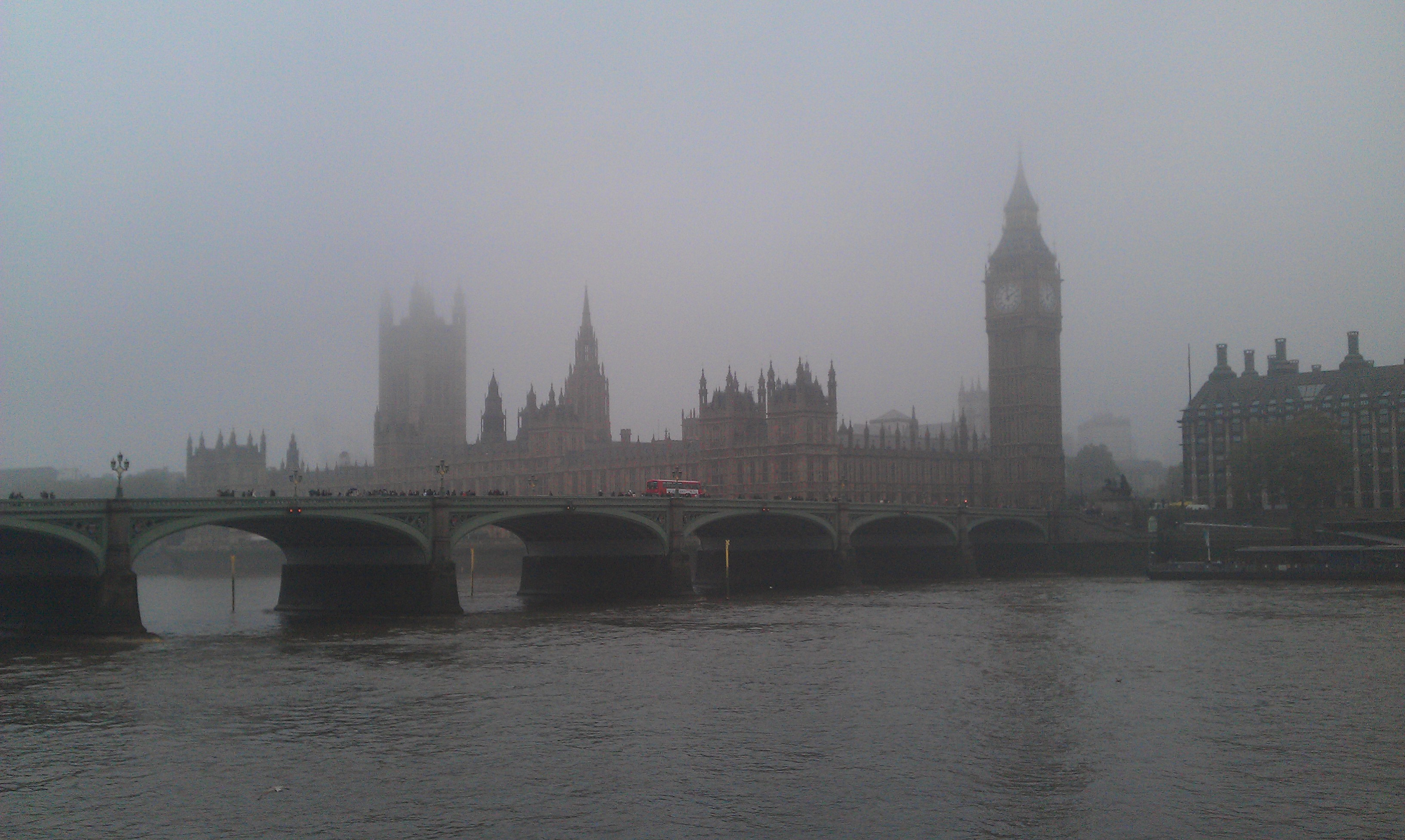 Fog at Westminster, London